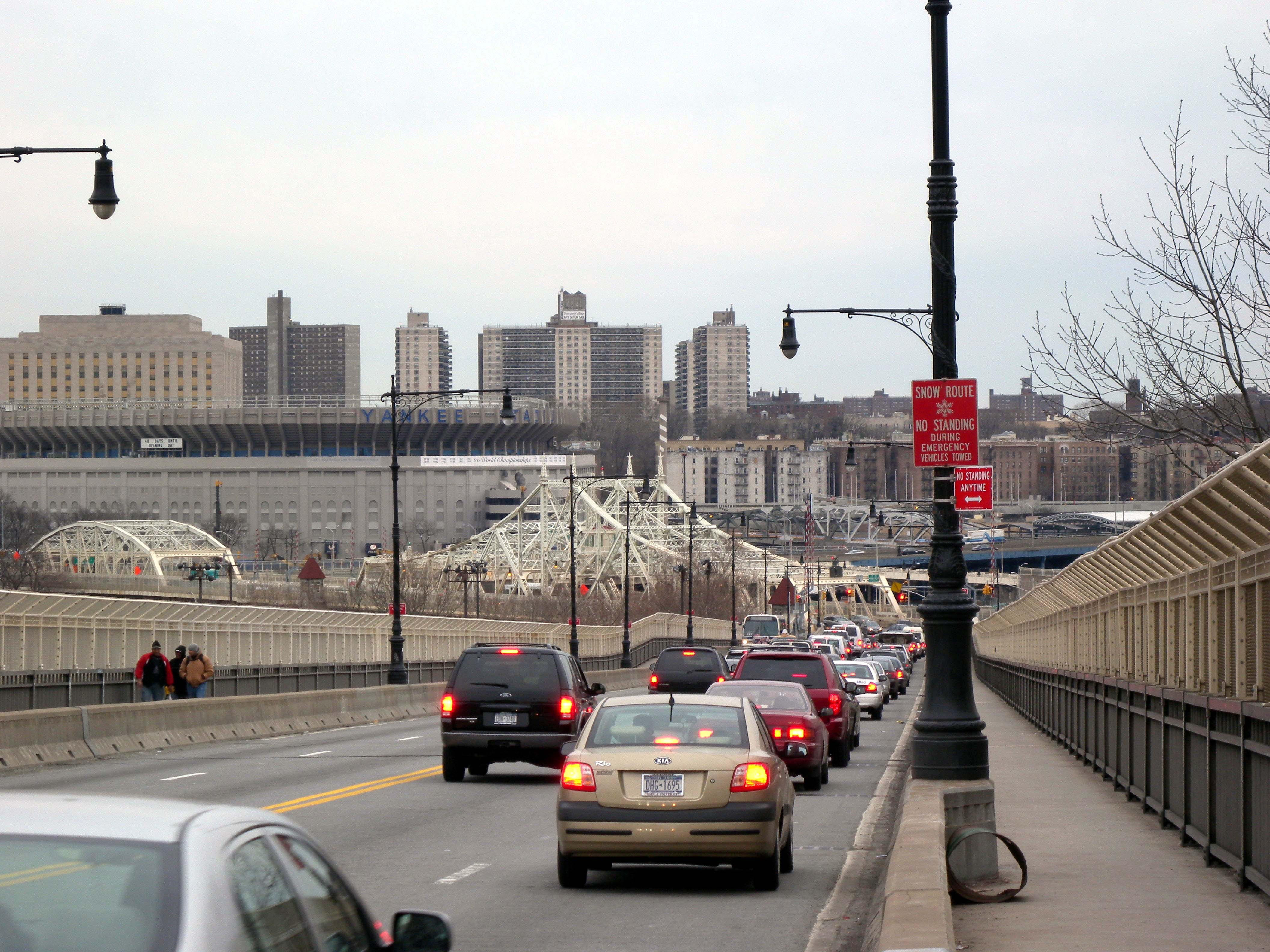 Looking east and down the en:155th Street (Manhattan) viaduct towards Macombs Dam Bridge over the Harlem River and Yankee Stadium on a cloudy afternoon.